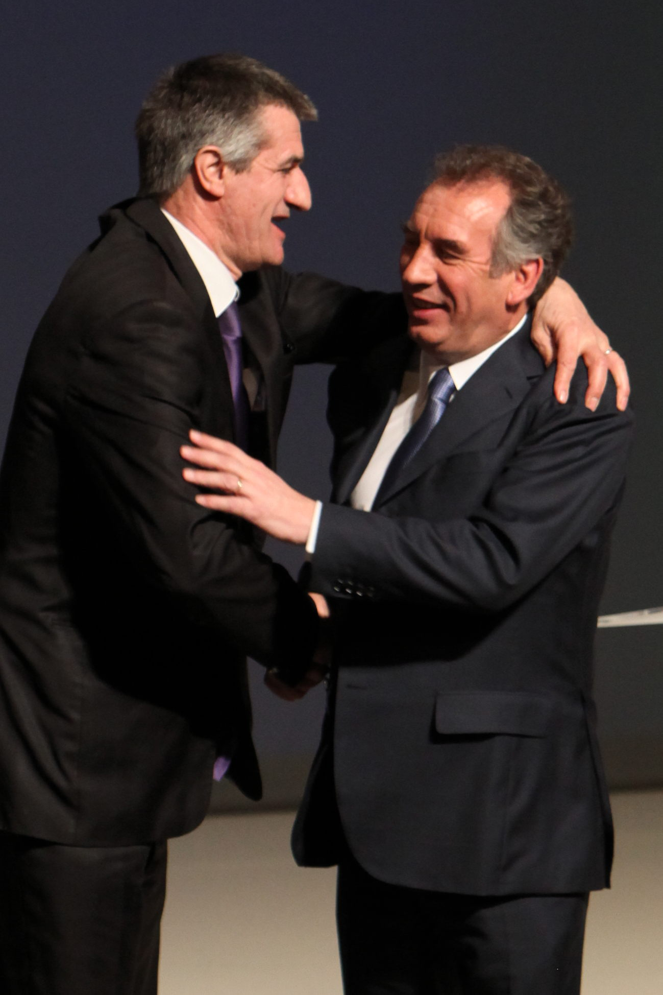 François Bayrou at the meeting at Silo, Marseille